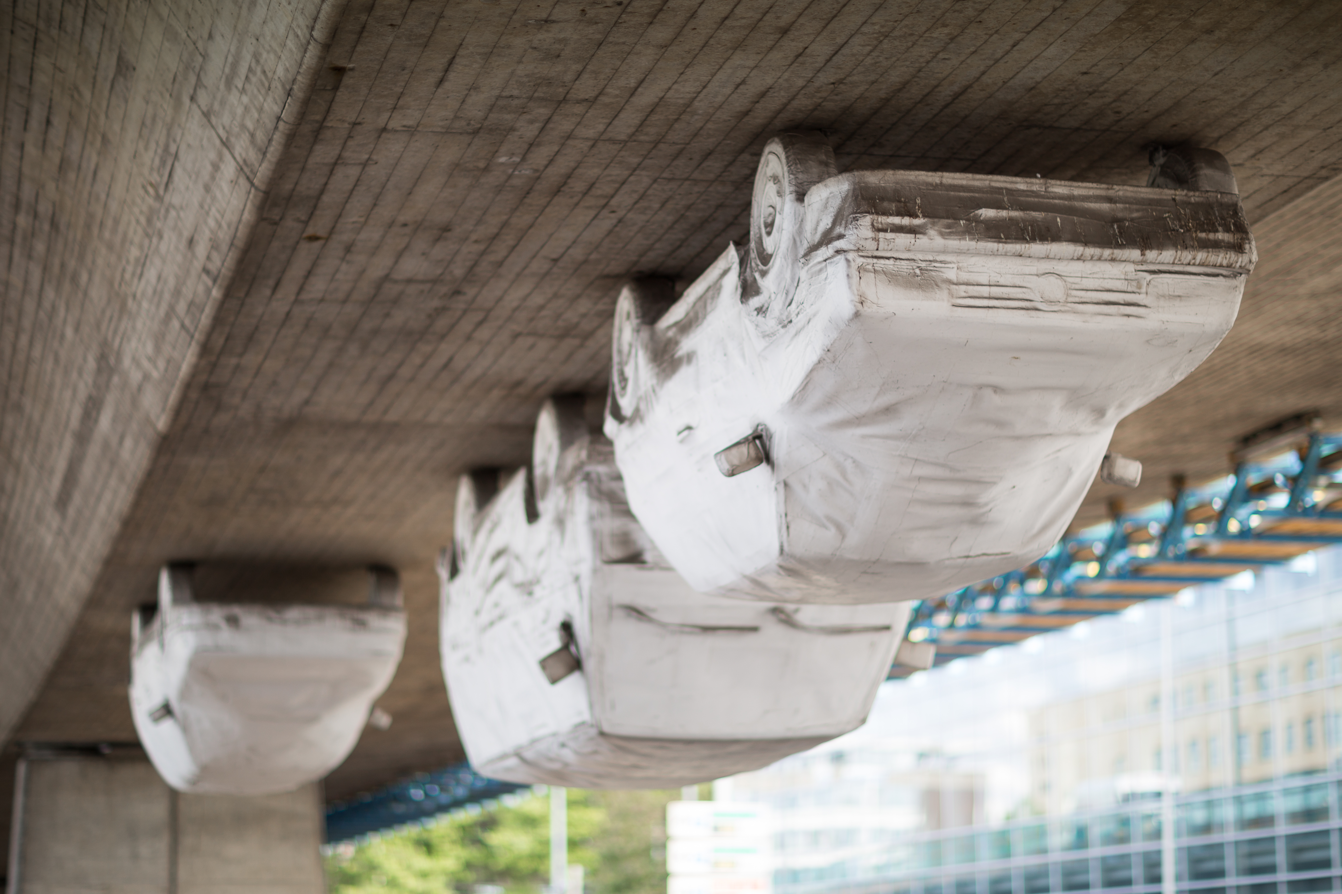 Sculpture "Hangover" by Andreas von Weizsaecker (1956 - 2008) located at Raschplatz square in Hanover, Germany.